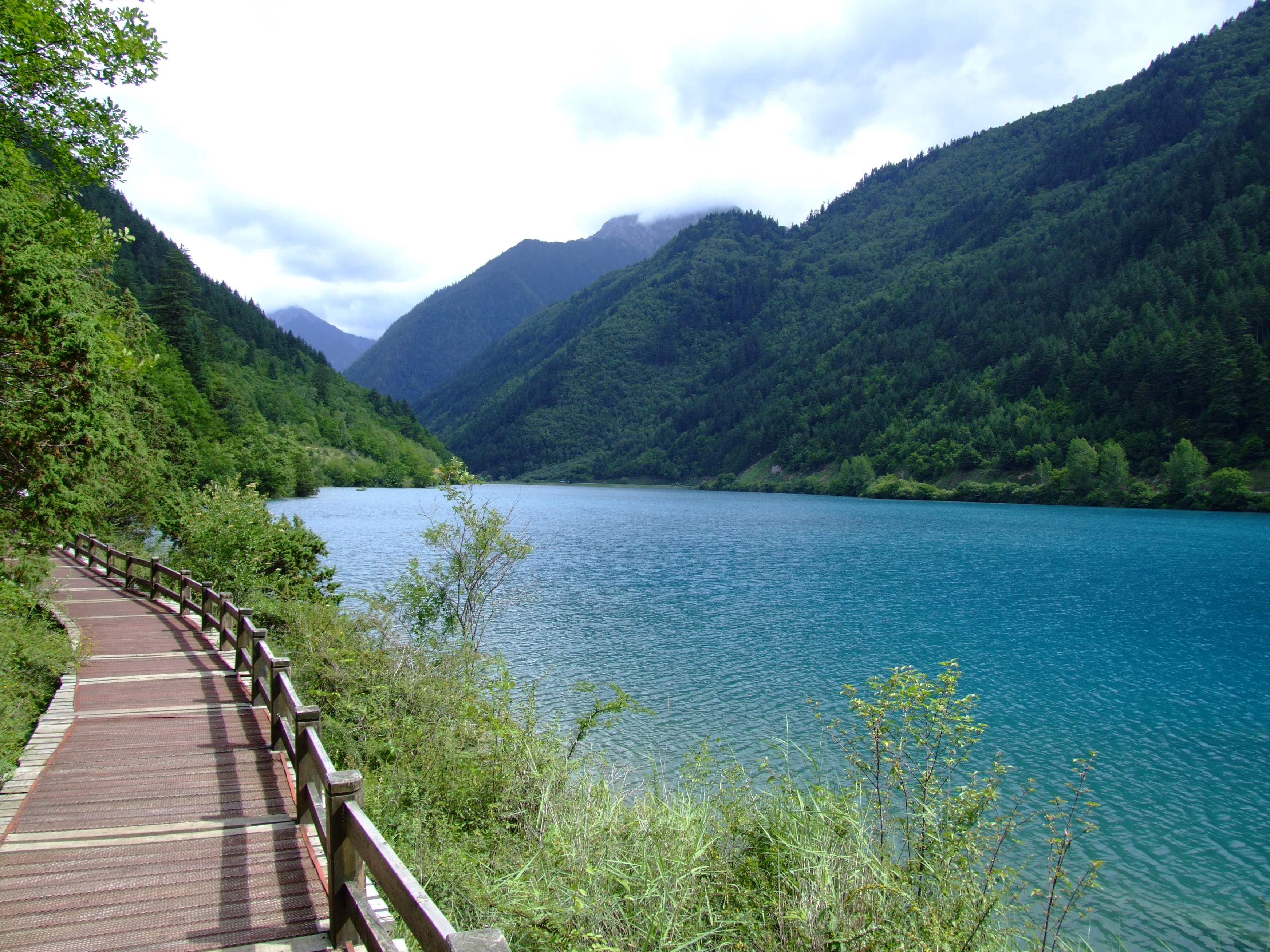 One of Jiuzhaigou Valley's lakes